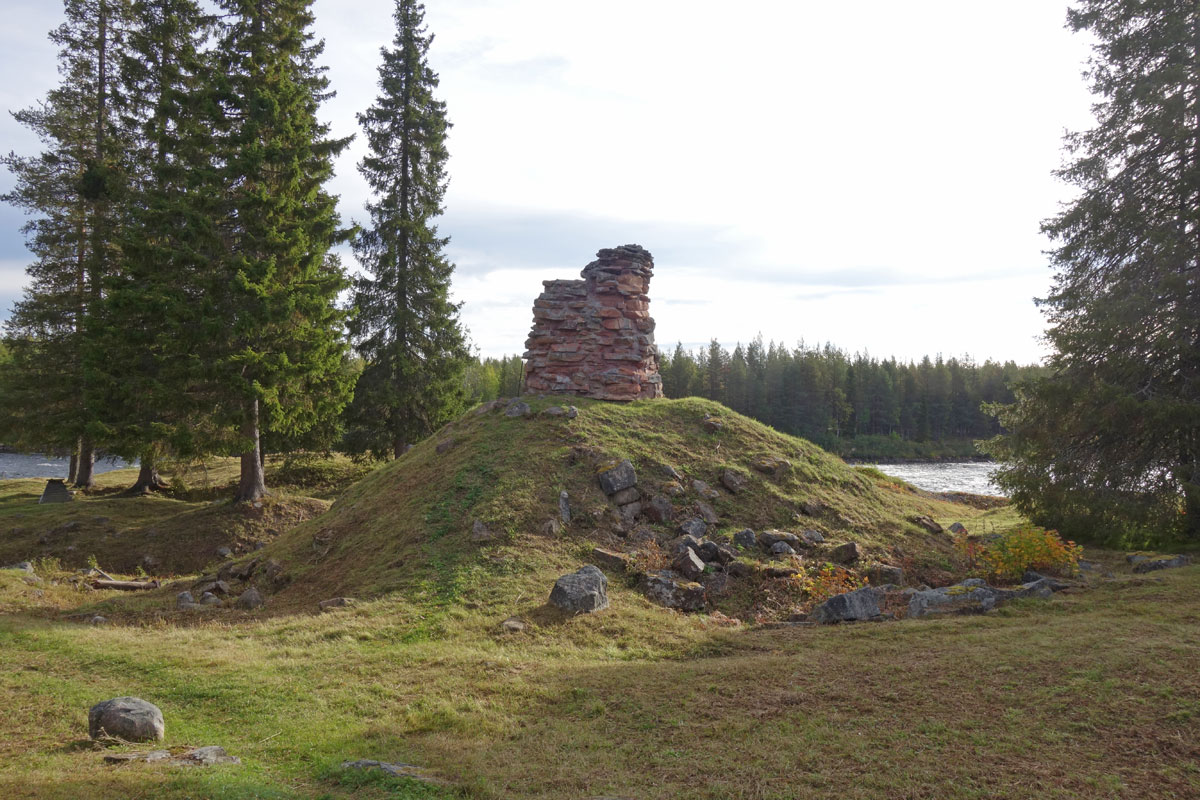 The blast furnace ruin at Palokorva by the river Torneälven in northern Sweden.